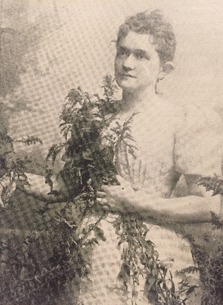 Kate Slaughter McKinney